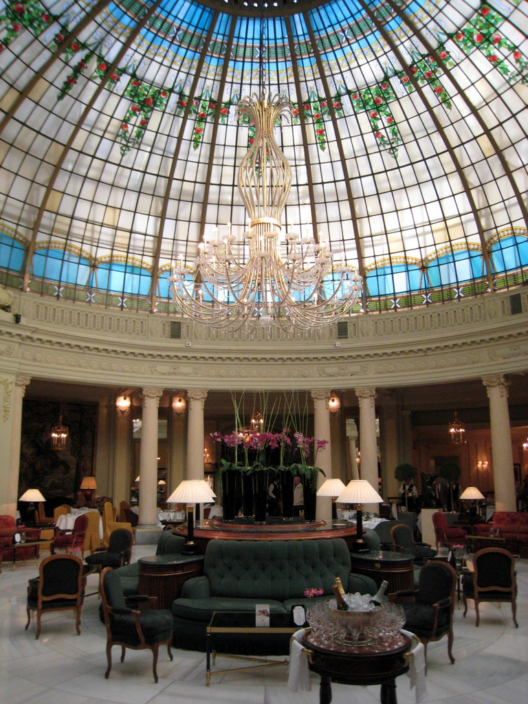 Lounge of the Palace Hotel in Madrid (Spain).